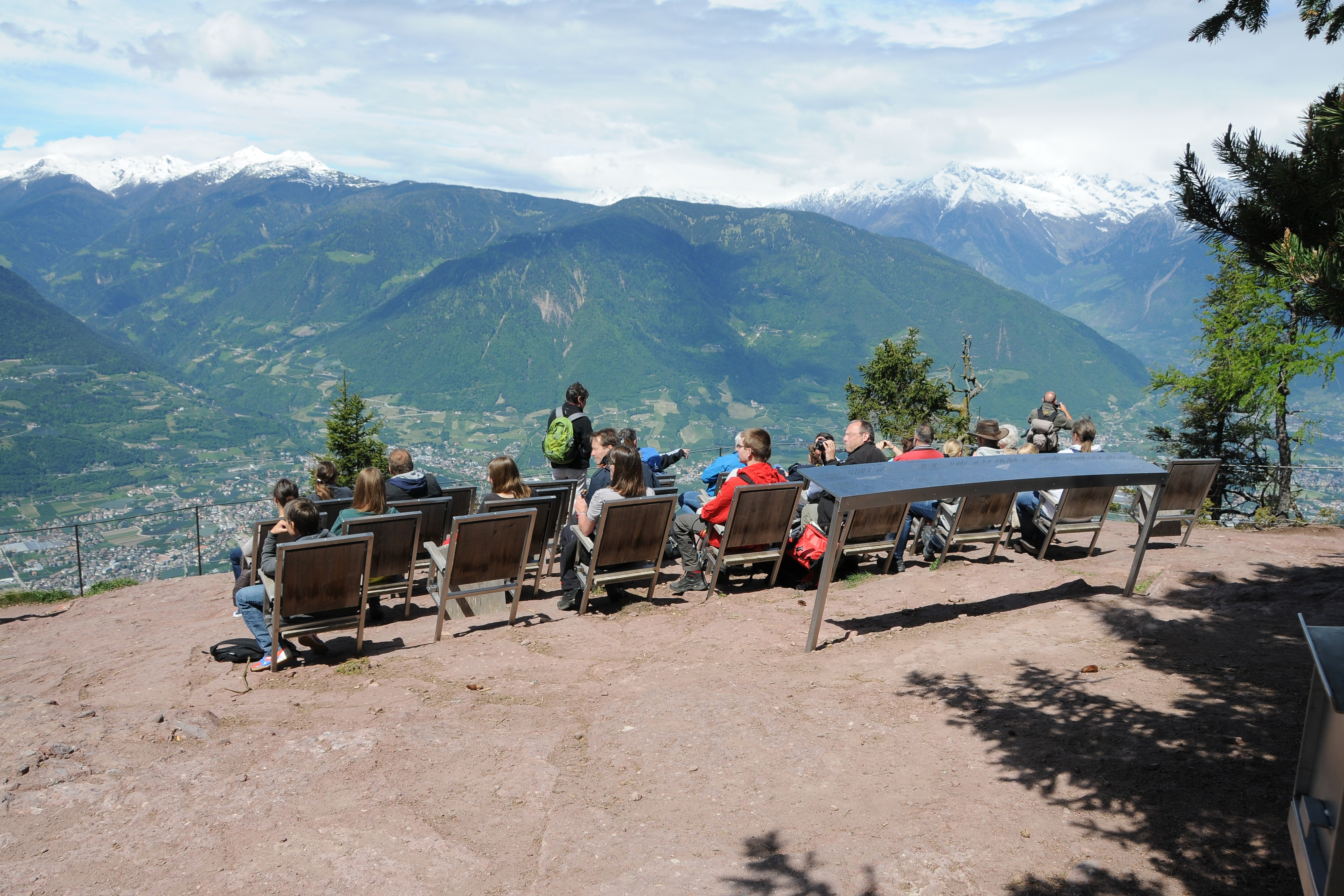 Knottnkino, cinema-like viewpoint near Vöran, South Tyrol, Italy